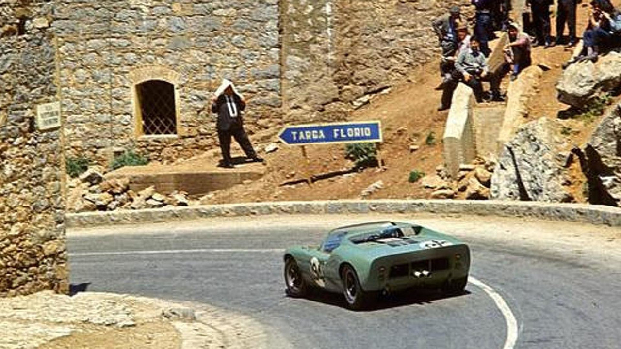 Ford GT40 roadster s/n 111 as entry #194 at Targa Florio on 09 May 1965 driven by Bondurant and Whitmore (Team: Ford Advanced vehicles). They had an accident and did not finish.[1](Video of this GT40 in this race)